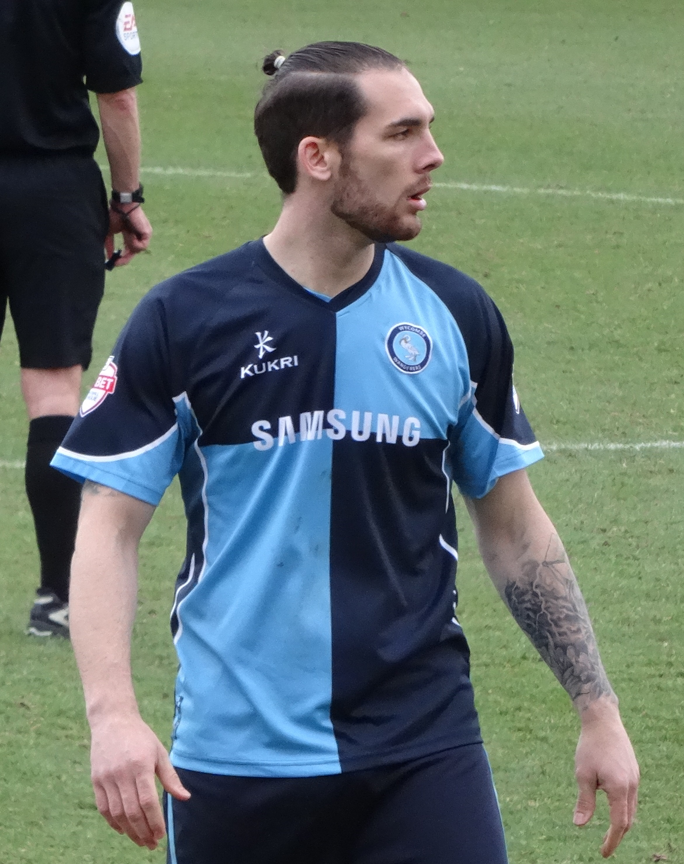 Reece Styche.